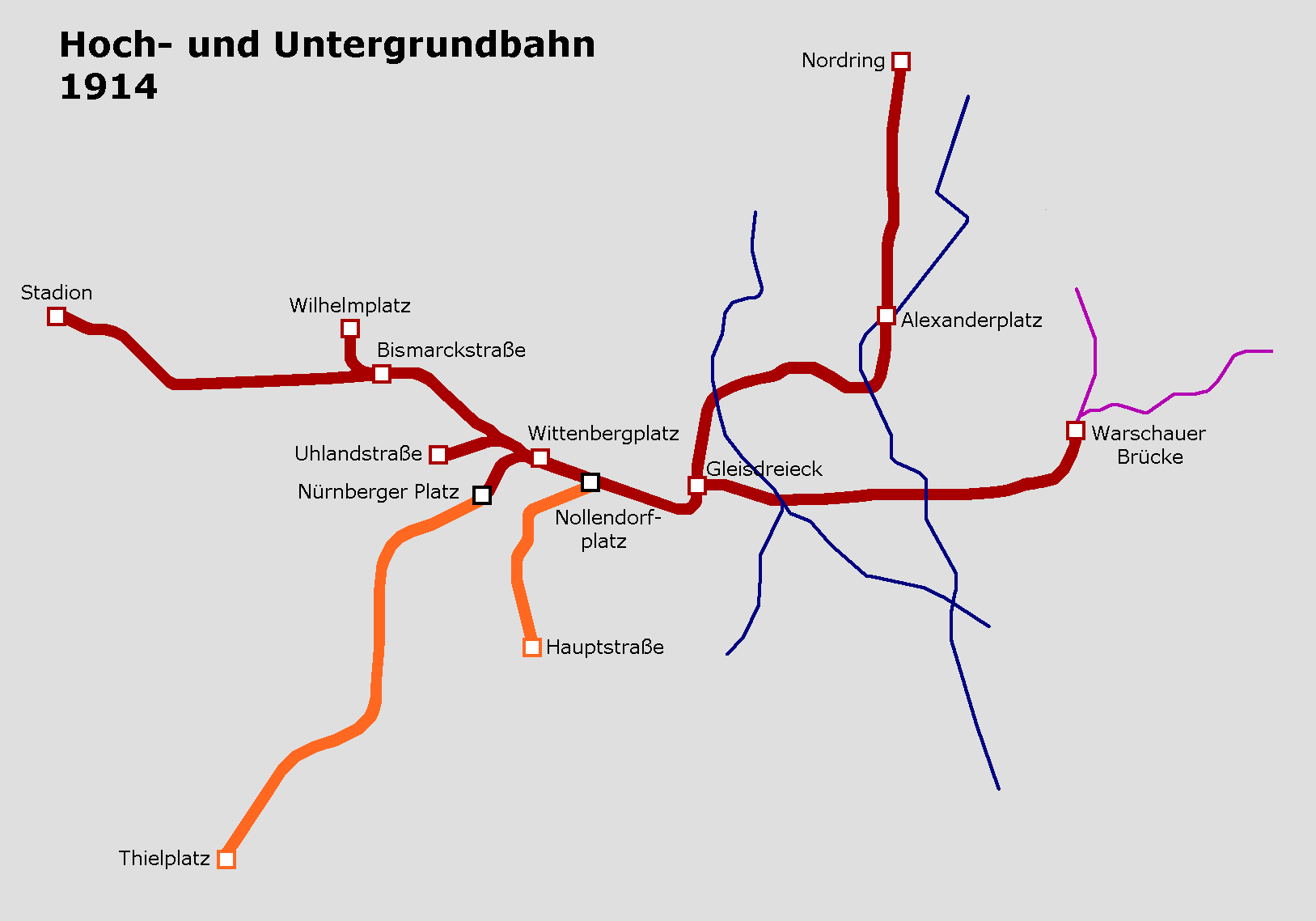 Map of the Berlin metro ("Elevated and Subway Lines") in 1914 Brown: Lines owned and operated by the Hochbahngesellschaft Orange: Municipal lines operated by the Hochbahngesellschaft Purple: Flachbahn (tram) lines of the Hochbahngesellschaft Blue: Kraftomnibus (bus) lines of the Hochbahngesellschaft